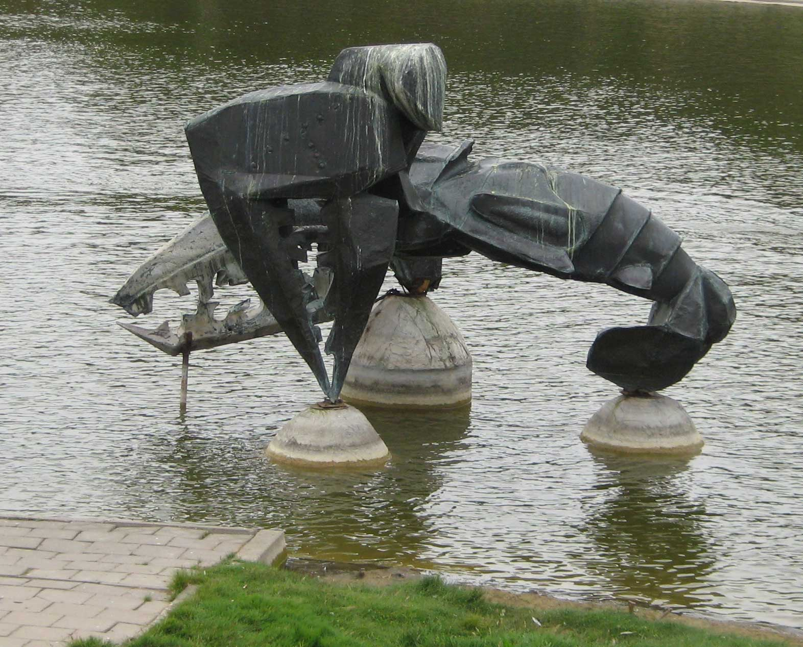 The symbol of Panevėžys in Lithuania - vėžys (the crab)